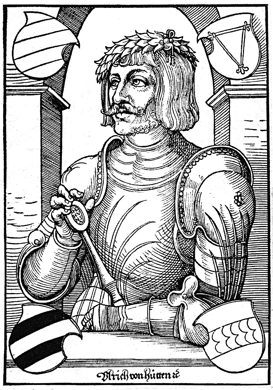 Ulrich von Hutten, Holzschnitt / woodcut; Kupferstichkabinett, Berlin